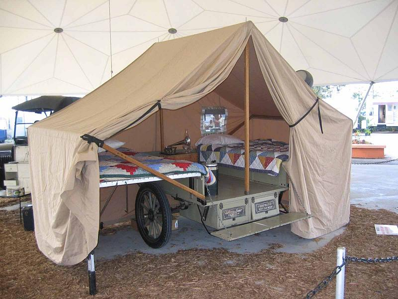 Travel trailer (with a Model T hidden in the left background)